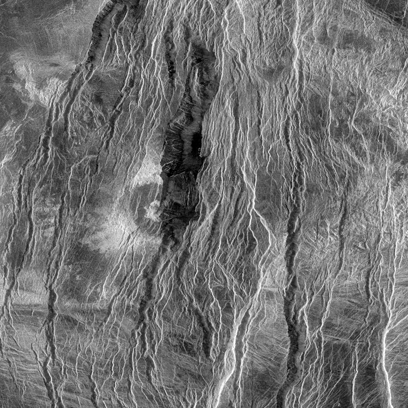 Magellan radar image of Balch Crater, Venus, originally designated Somerville Crater. This crater is one of the few examples of tectonically modified craters seen on Venus. The absence of such craters indicates a possible cessation of tectonic deformation on Venus at some point in history. Balch is located at 30° N, 283° W in Devana Chasma, Central Beta Regio. The crater was originally 37 kilometres in diameter. North is up. (Magellan C1-MIDR 30N279;1,framelet 30) Location & Time Information Date/Time (UT): N/A Distance/Range (km): 479.4 Central Latitude/Longitude (deg): +29.95/279.43 Orbit(s): 1859-1969 Imaging Information Area or Feature Type: Crater, Rift Instrument: Synthetic Aperture Radar Instrument Resolution (pixels): 240 x 240, 8 bit Instrument Field of View (deg): 2.1 x 2.5 Filter: N/A Illumination Incidence Angle (deg): 39.1-44.4 Phase Angle (deg): 0 Instrument Look Direction: Left Surface Emission Angle (deg): 39.1-44.4 Ordering Information CD-ROM Volume: MG_0043 NASA Image ID number: C1-30N279;1 Other Image ID number: P-38741 NSSDC Data Set ID (Photo): 89-033B-01O NSSDC Data Set ID (CD): 89-033B-01C Other ID: N/A